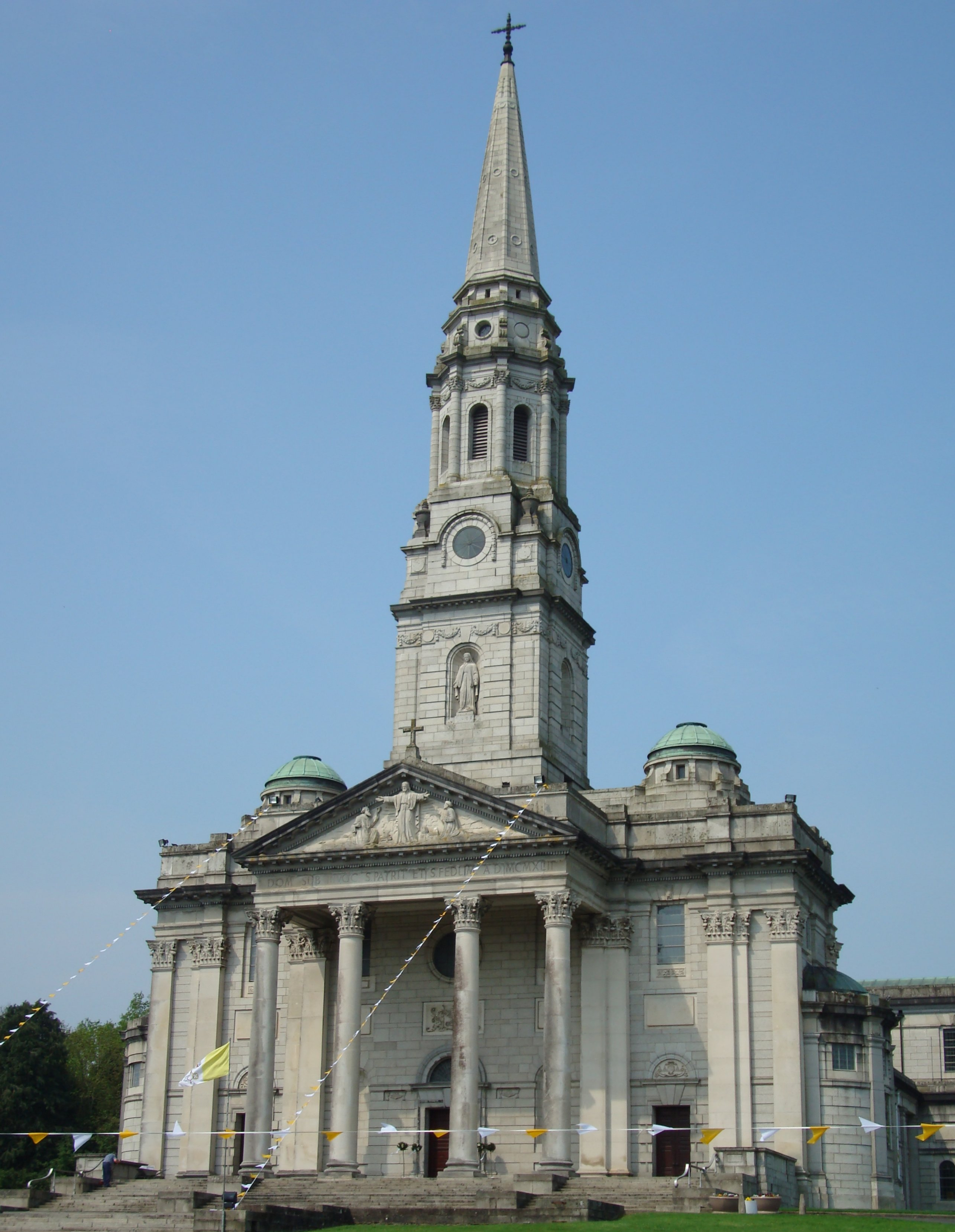 Photograph of Cavan Cathedral, Co. Cavan, Republic of Ireland